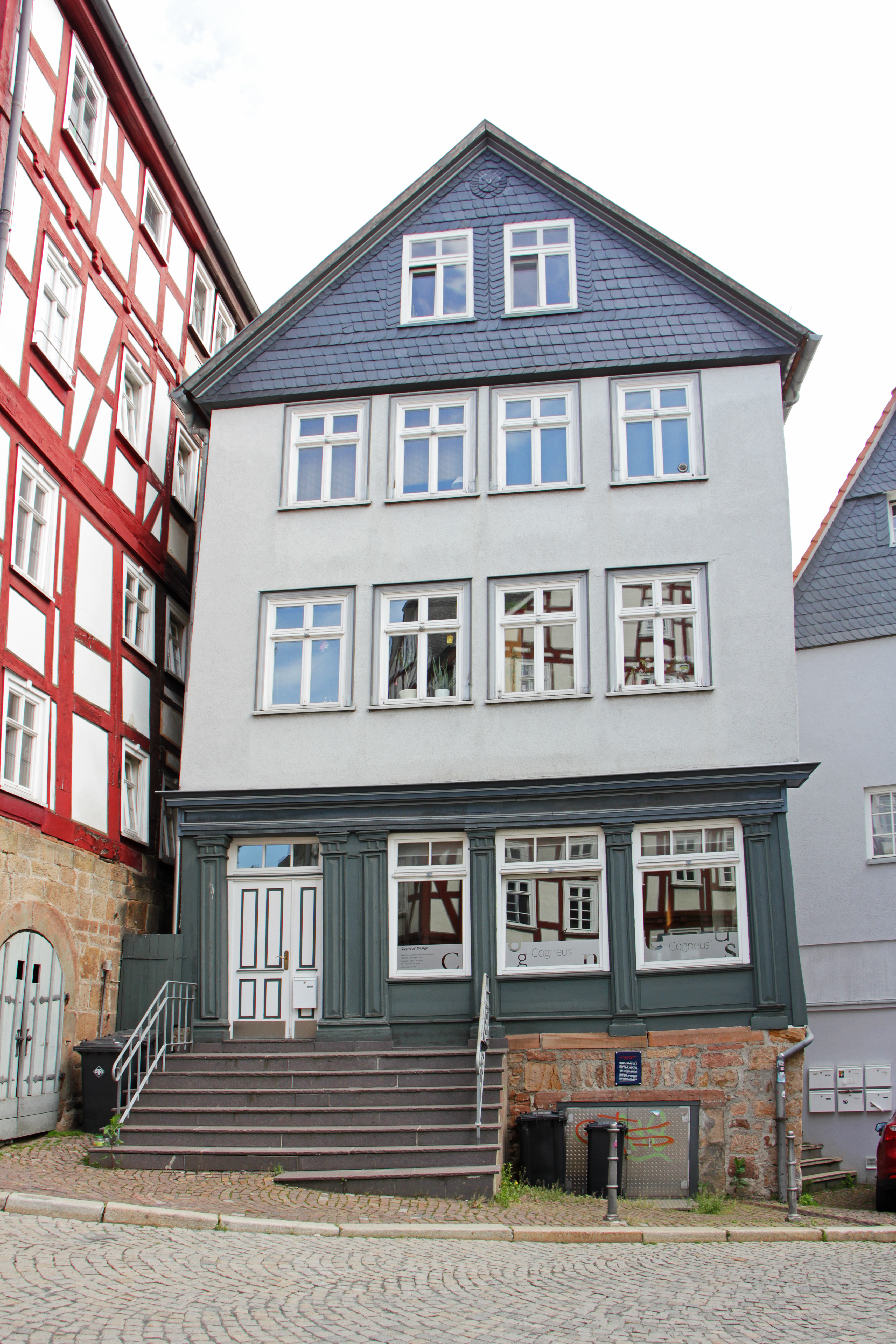 Marburg, house Hofstatt 1, seen from west. Parents' house of Karl Theodor Bayrhoffer (1812–1888) where his University printing press was located.